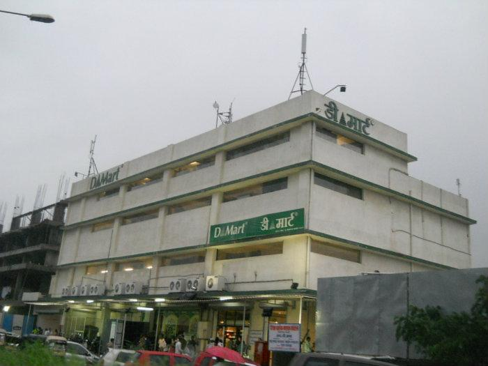 This is the one and only D Mart outlet in Kalamboli.